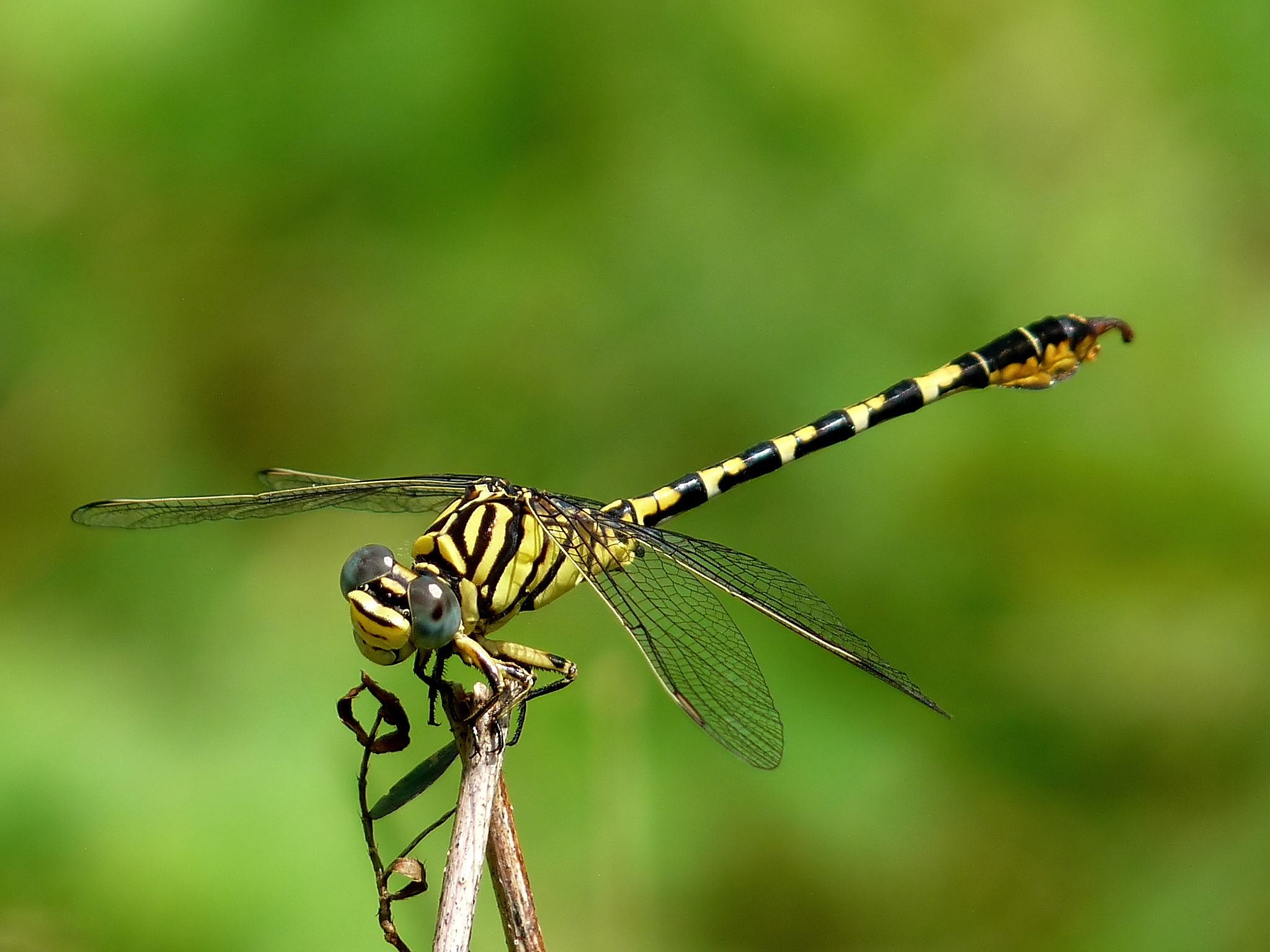 Paragomphus is a genus of dragonfly in family Gomphidae. They are commonly known as Hooktails. Lined Hooktail (Paragomphus lineatus) is a yellow dragonfly with black and brown markings, and bluish grey eyes. Yellow with a brown “X” shaped and an oblique mark on the back of the thorax. Sides of the thorax have three parallel brown stripes. Eighth and ninth segments have lateral oar like expansions. Commonly found near streams, rivers, ponds and lakes. Taken at Kadavoor, Kerala, India.